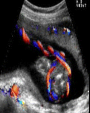 Fetal ultra sound color doppler scan of nuchal Cord